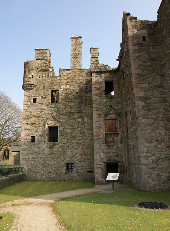 MacLellan's Castle, Dumfries and Galloway, Scotland - entrance